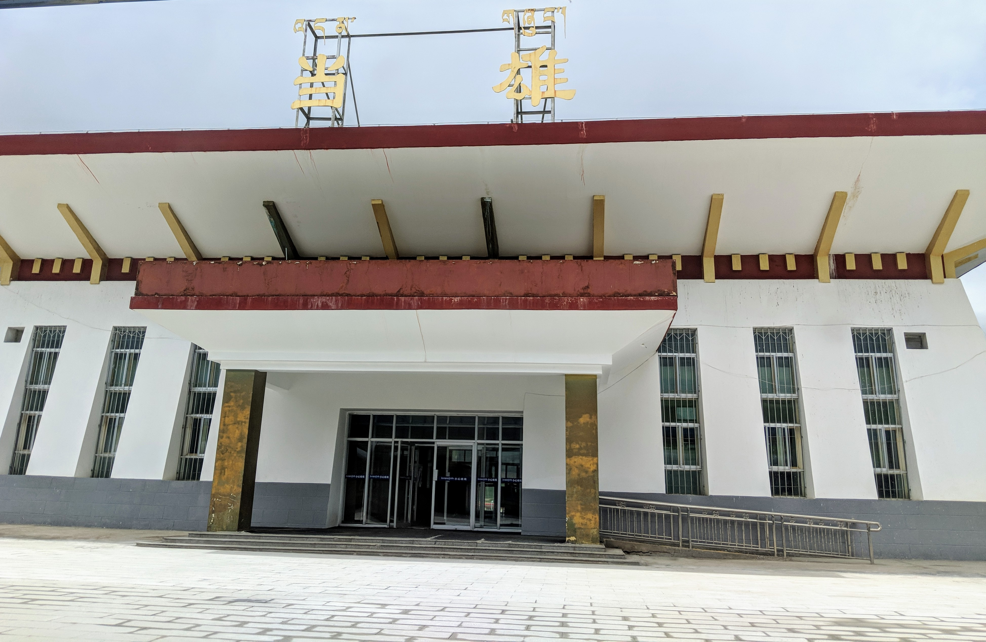 Damxung (Danxiong) station building, Tibet